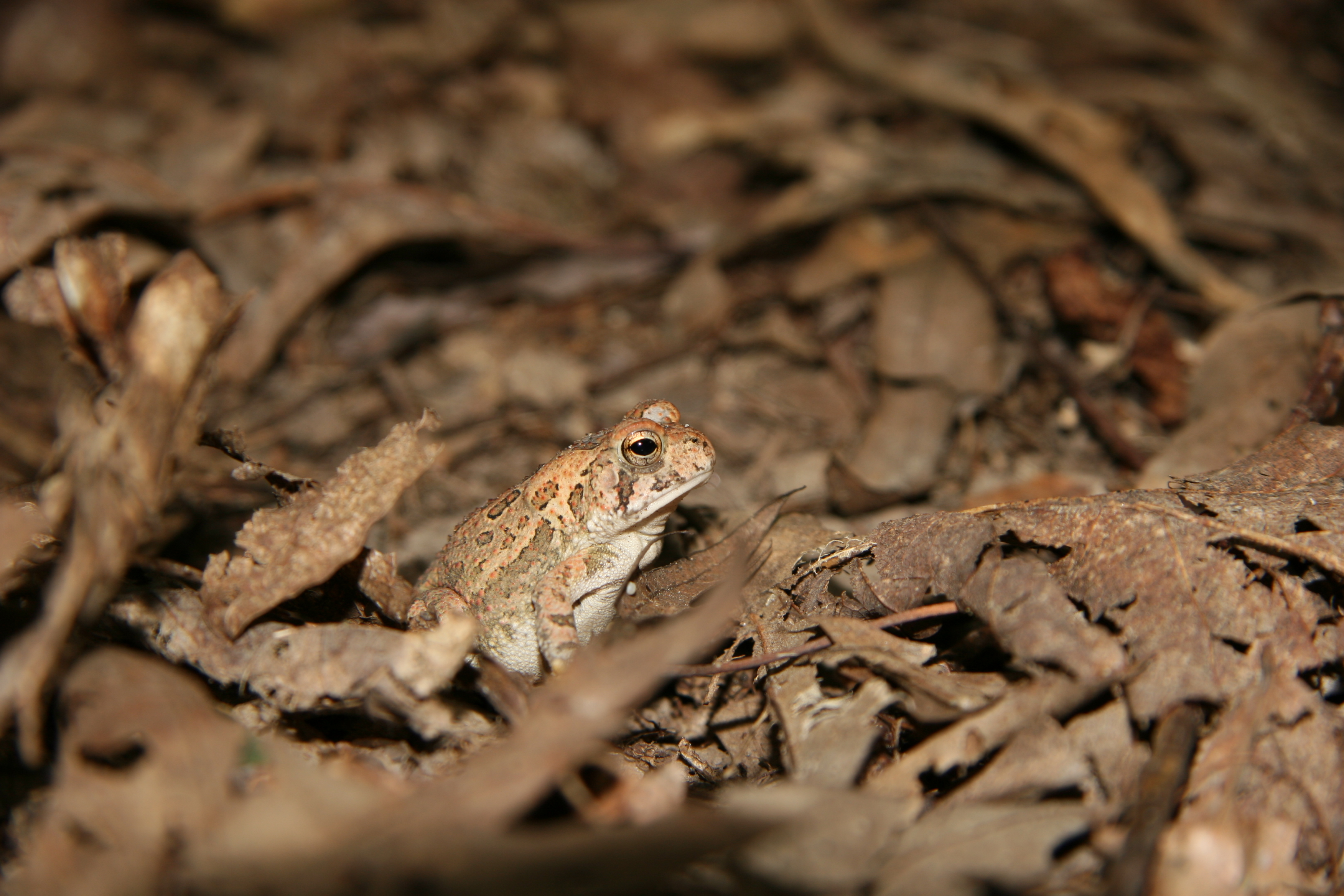 Side-view of Fowler's Toad (Bufo fowleri) camouflaged in decaying leaves.